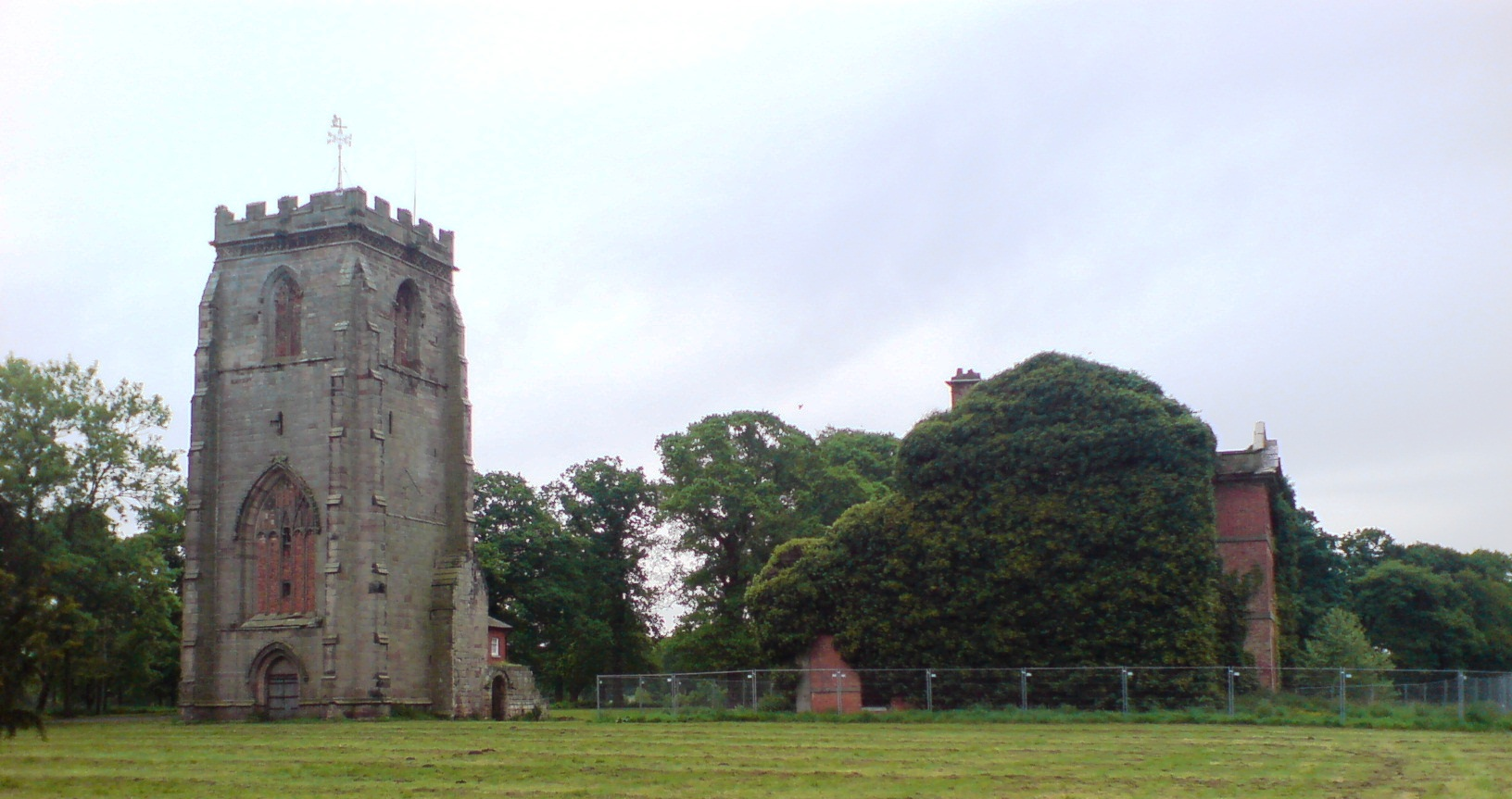 Ranton Abbey, Staffordshire, seen from the west. On the left is the Perpendicular Gothic tower of the demolished priory church. On the right is the ivy-covered ruin of Ranton Abbey House, built about 1820 and destroyed by fire in the Second World War.